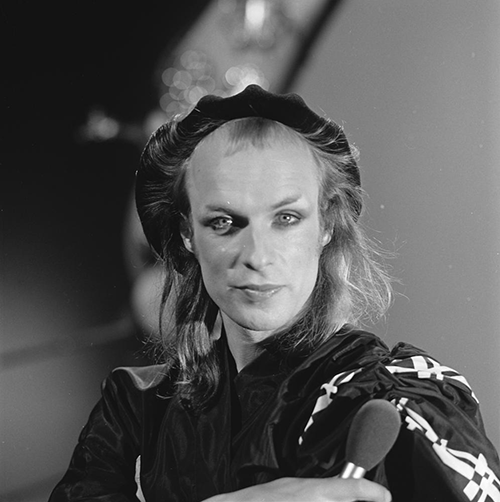 Brian Eno in AVRO's TopPop (Dutch television show) in 1974